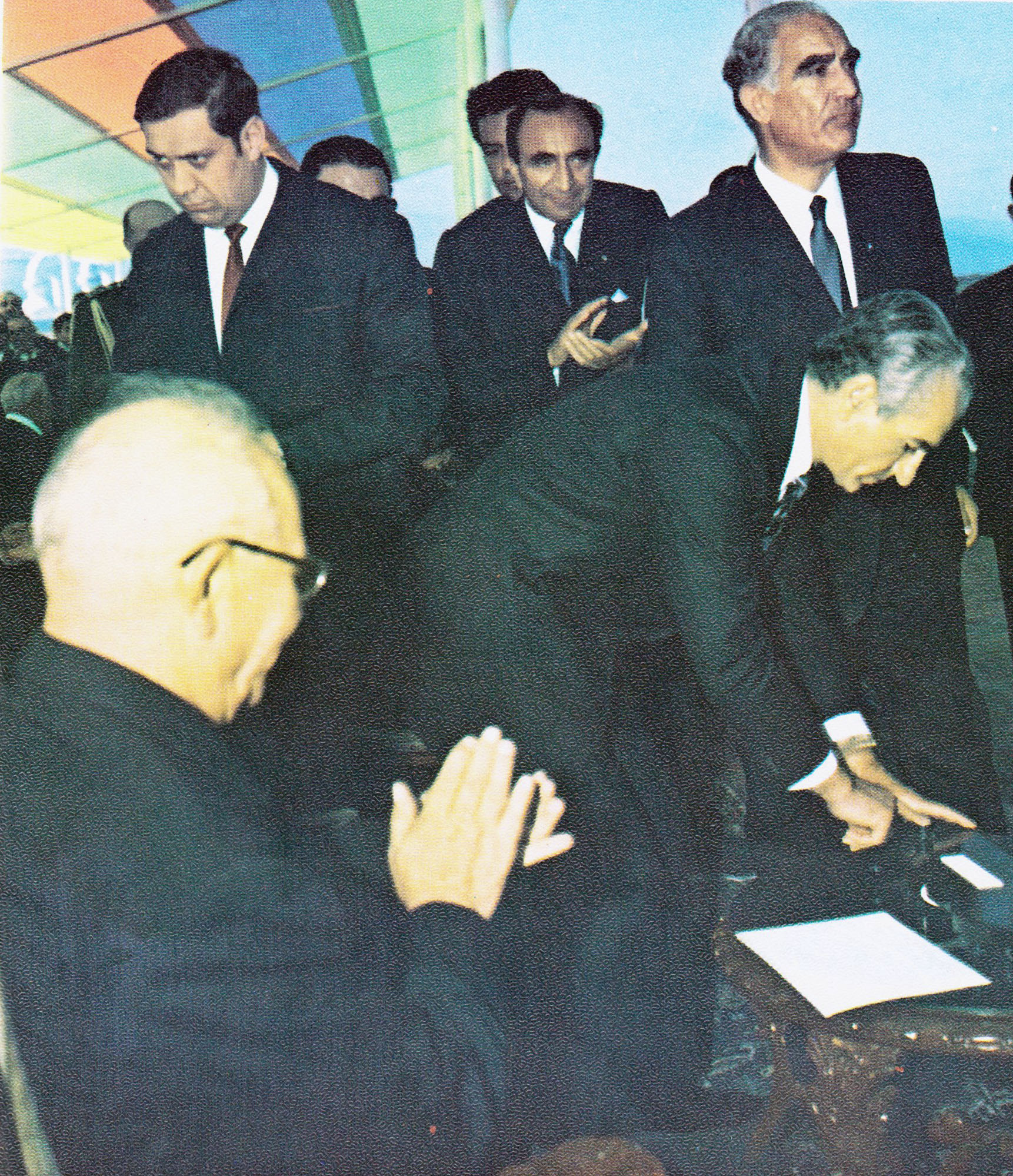 Shahanshah Aryamehr in a ceremony opens the Shahluleh (Major oil pipeline of Iran) by pressing the button. Head of State Nikolai Podgorny from USSR also is present in this ceremony applauding